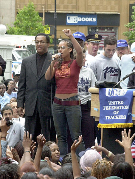 Alicia Keys & Dr. Ben Chavis at education protest encouraging a crowd of 100,000 plus students at NY City Hall 2002